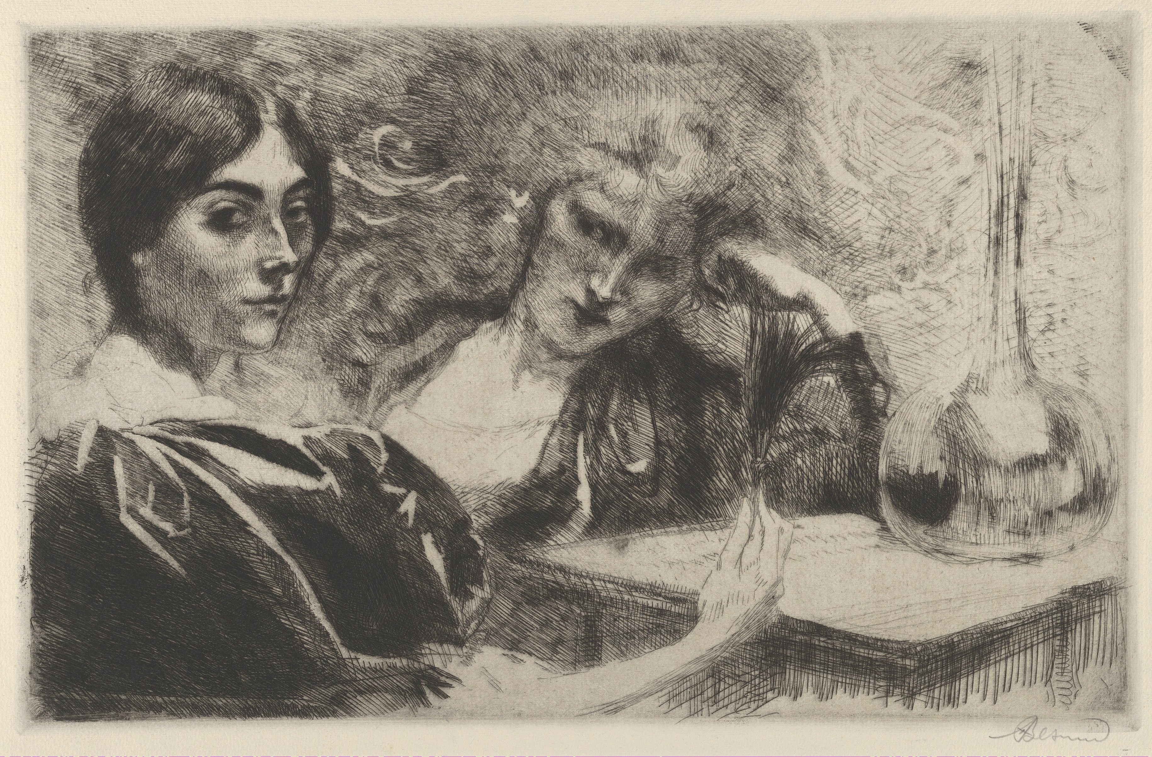 Print; Prints